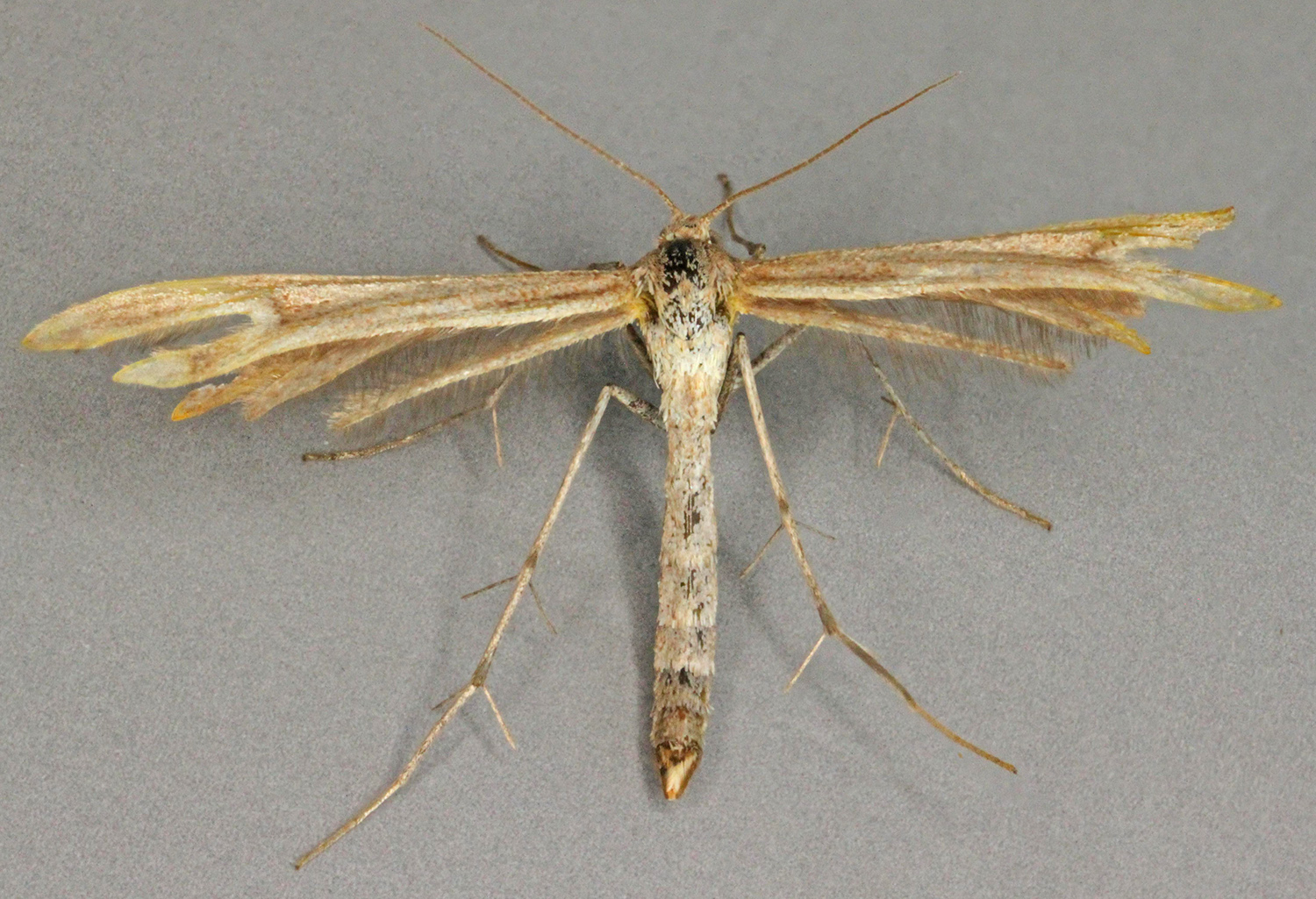 Marasmarcha lunaedactyla, Newborough Warren, North Wales, July 2012